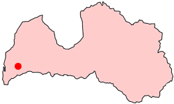 Location map of Priekule city, Latvia.